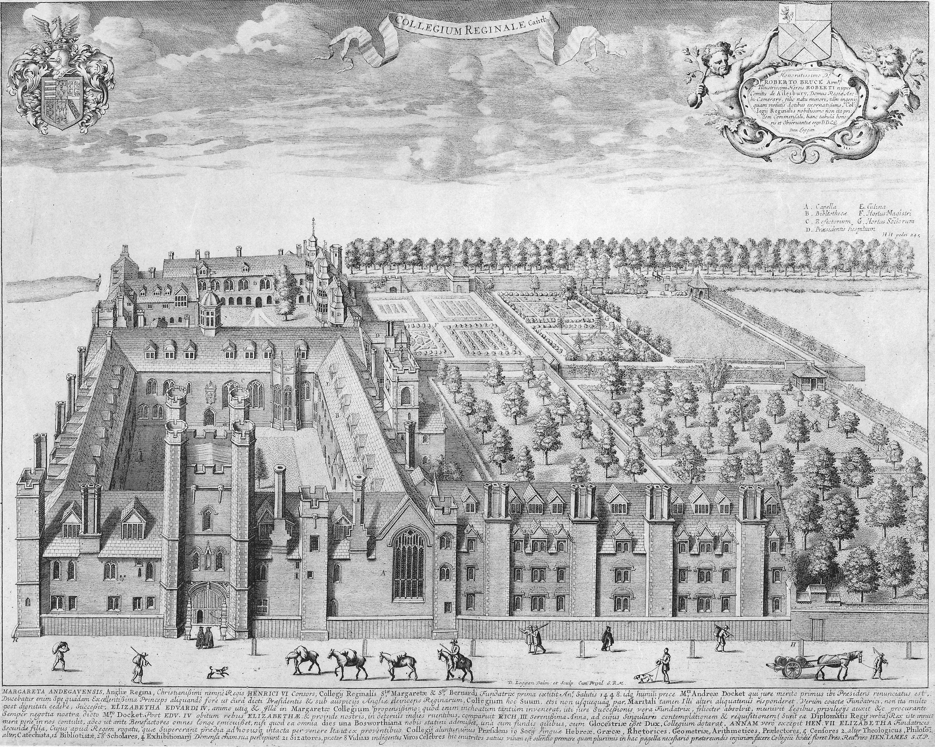 Bird's eye view of Queens' College, Cambridge by David Loggan, published in 1690. Probably drawn in 1685.